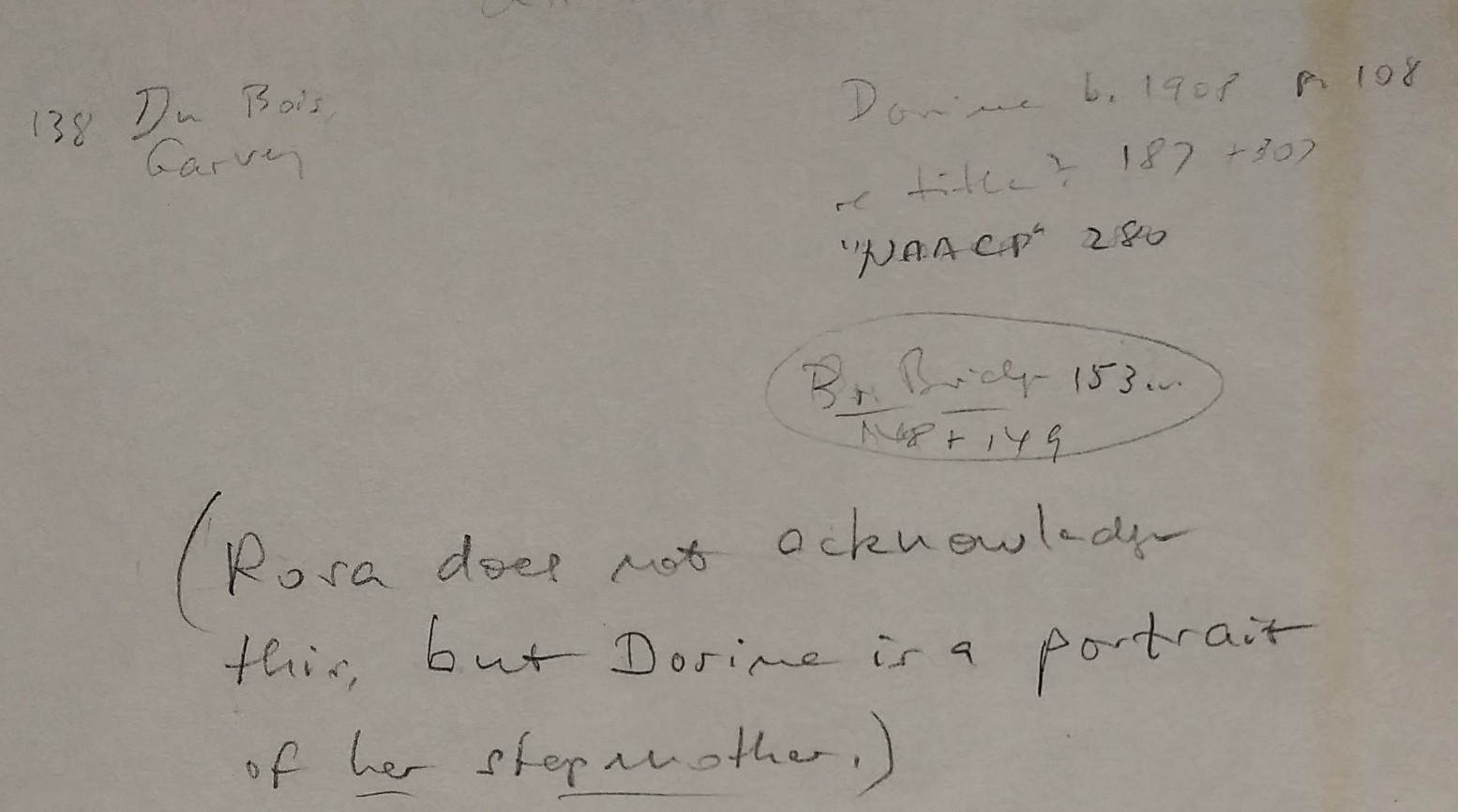 A pencilled note in the back of a copy of Rosa Guy's novel A Measure of Time: An asterisk has been added in pencil and a corresponding pencilled footnote below in a different handwriting says of the novel's protagonist, Dorine, 'Rosa does not acknowledge this, but Dorine is a portrait of her stepmother' This is from the same copy with this inscription on the flyleaf